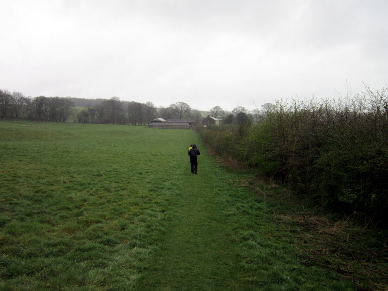 Walking towards The Beck Farm